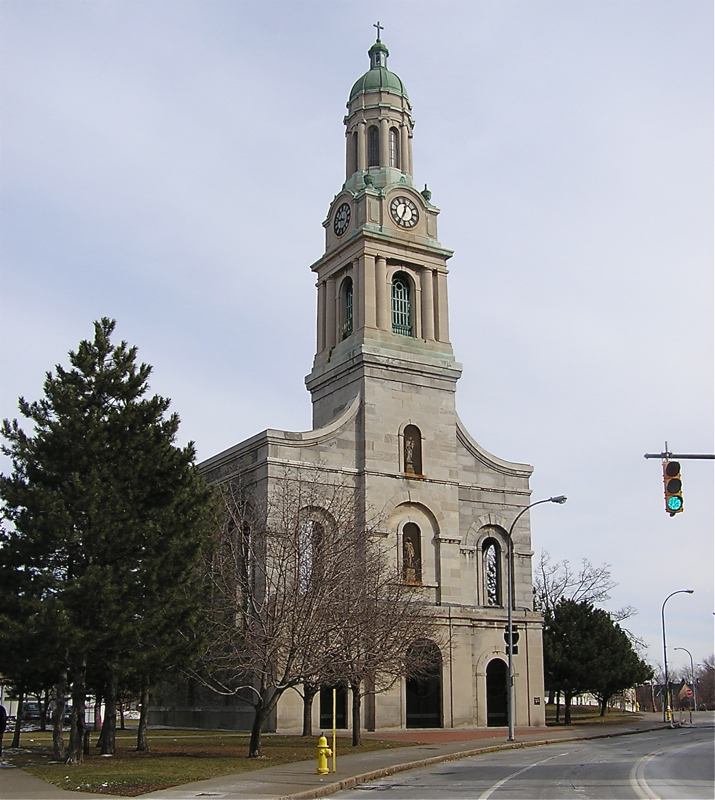 Remains of St. Joseph's church; Rochester, New York, February 2009.